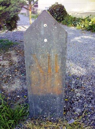 Milestone XII and Oil lamp, cnr Voortrekker and Durban Roads, Bellville This media shows a South African Protected Site with SAHRA file reference 9/2/012/0012.